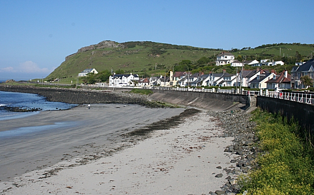 Ballygally Ballygally or Ballygalley (the spelling varies) is the most southerly of several little beach resorts on the Antrim coast north of Larne. Its houses are separated from the beach by the main A2 coast road.